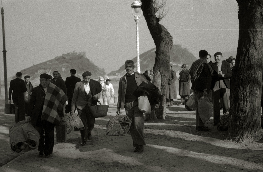 Prisoners released from the Ondarreta prison in San Sebastián, Spain (1942)